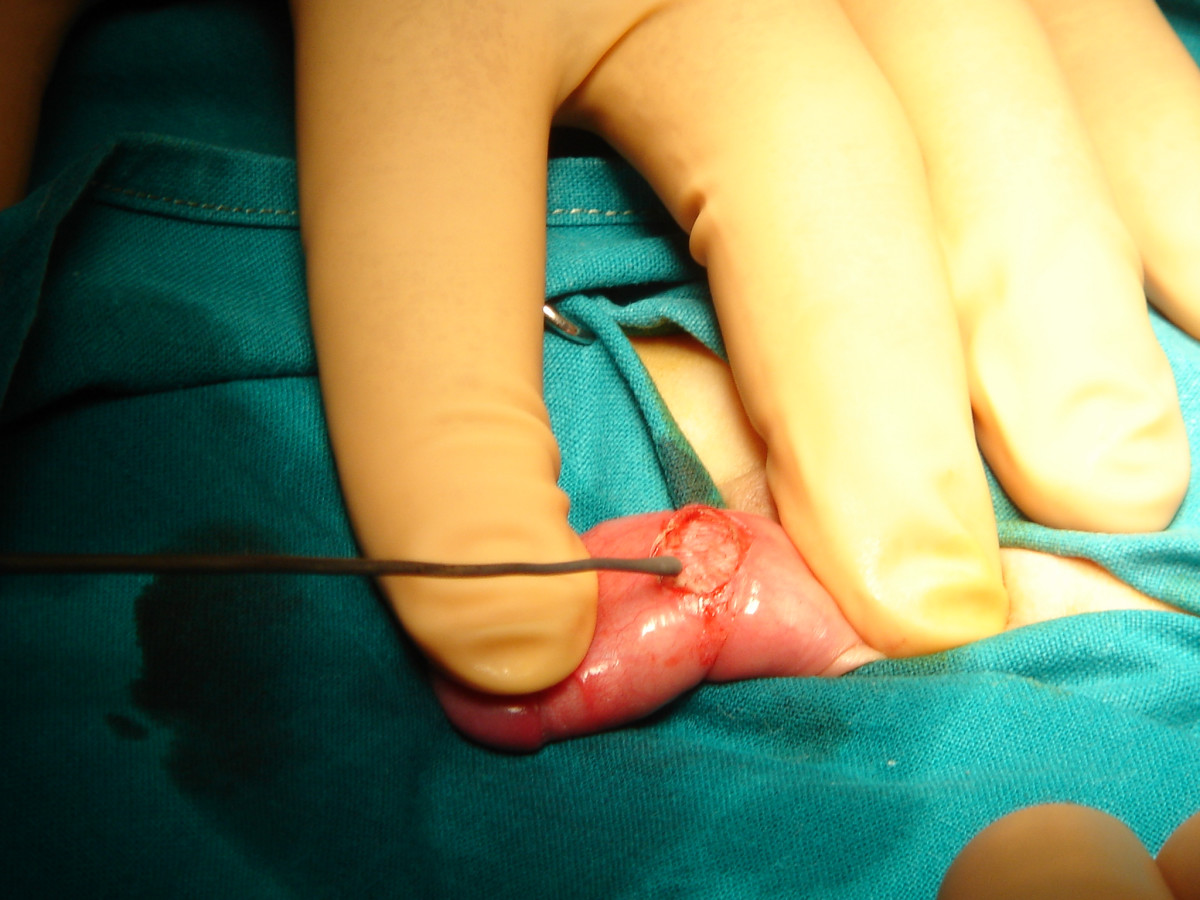 Sutureless prepuceplasty with wound healing by second intention: An alternative surgical approach in children's phimosis treatment. Photo of haemostasis performed with a heatened probe.